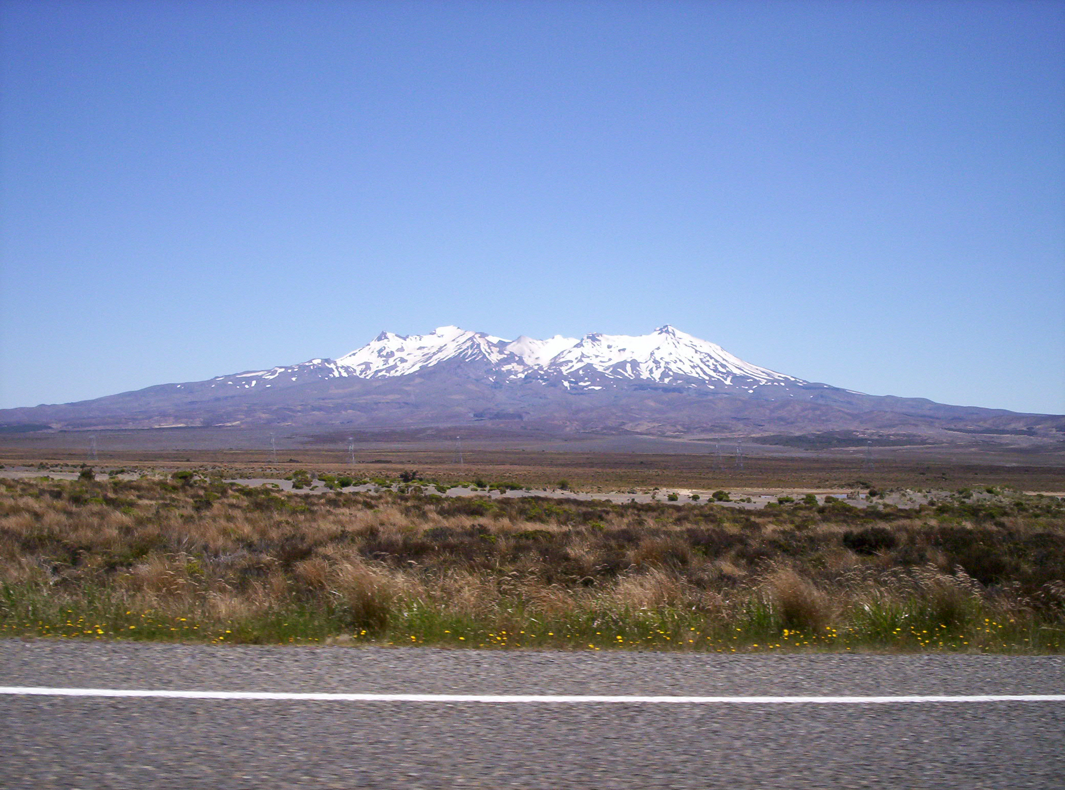 Mount Ruapehu from the Desert Road, photo taken while driving past, nearer Waiouru.